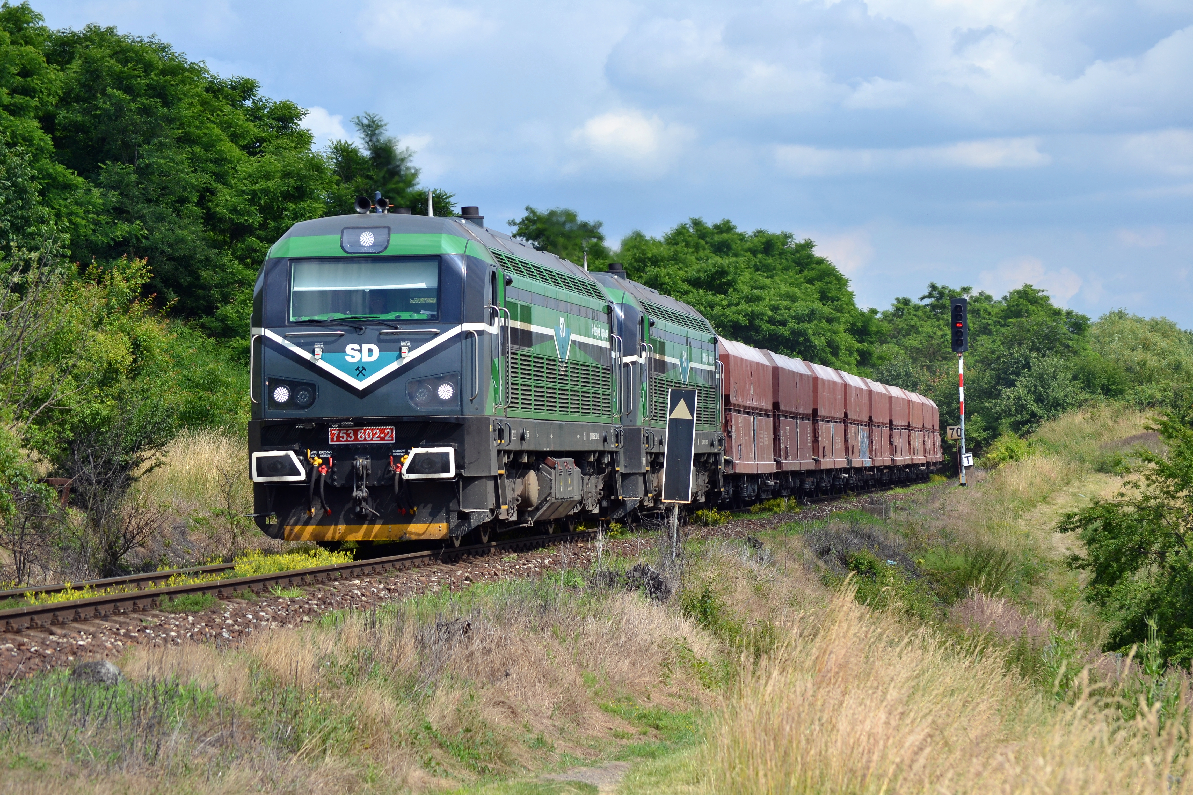 Locomotive class 753.6 of SD Kolejová doprava. Train carrying limestone passes through the town of Hostivice, Central Bohemian Region, Czech Republic.